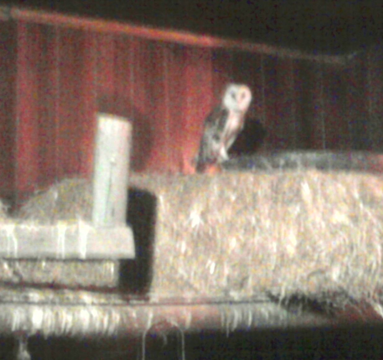 Ejemplar de lechuza común (Tyto alba) en el "Nocturama" del Buin Zoo, Chile